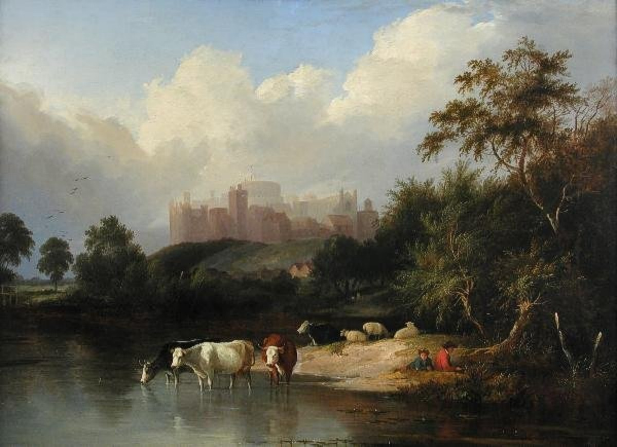 "River Landscape with Windsor Castle", oil on canvas, 57 x 79 cm